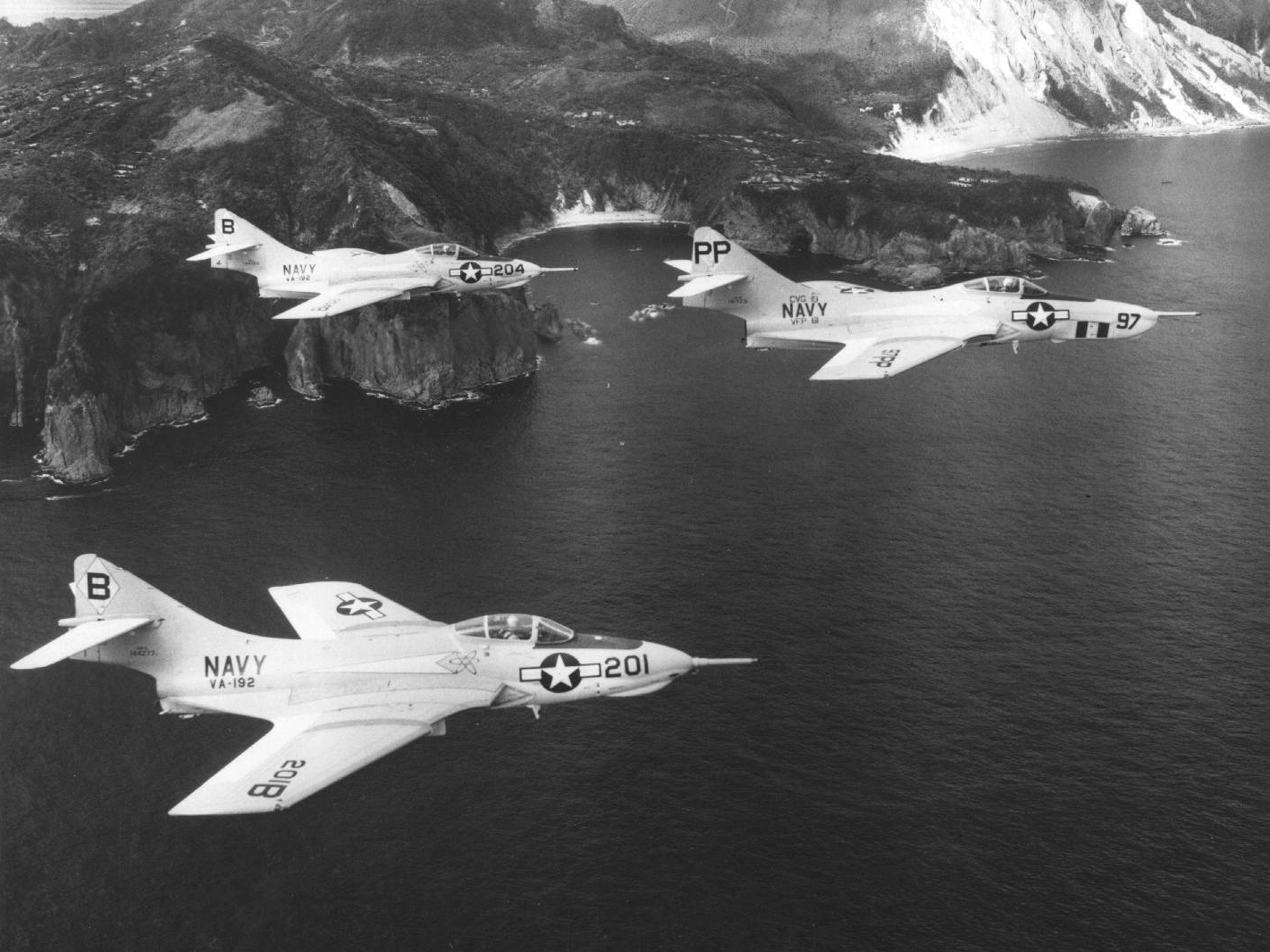 Two U.S. Navy Grumman F9F-8B Cougar of Attack Squadron VA-192 "Golden Dragons" and an F9F-8P of Photographic Reconnaissance Squadron VFP-61 Det.E "Eyes of the Fleet" in flight over Taiwan, in 1957. Both squadrons were assigned to Carrier Air Group 19 (CVG-19) aboard the aircraft carrier USS Yorktown (CVA-10) for a deployment to the Western Pacific from 9 March to 25 August 1957.